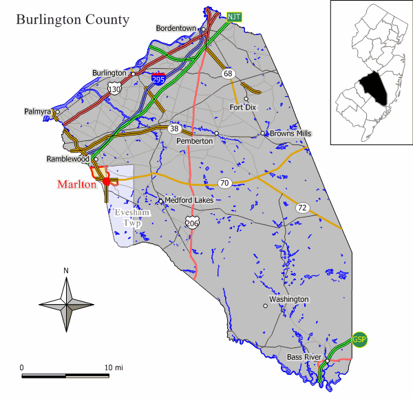 Source: Jim Irwin Original work by Jim Irwin, December 2005.